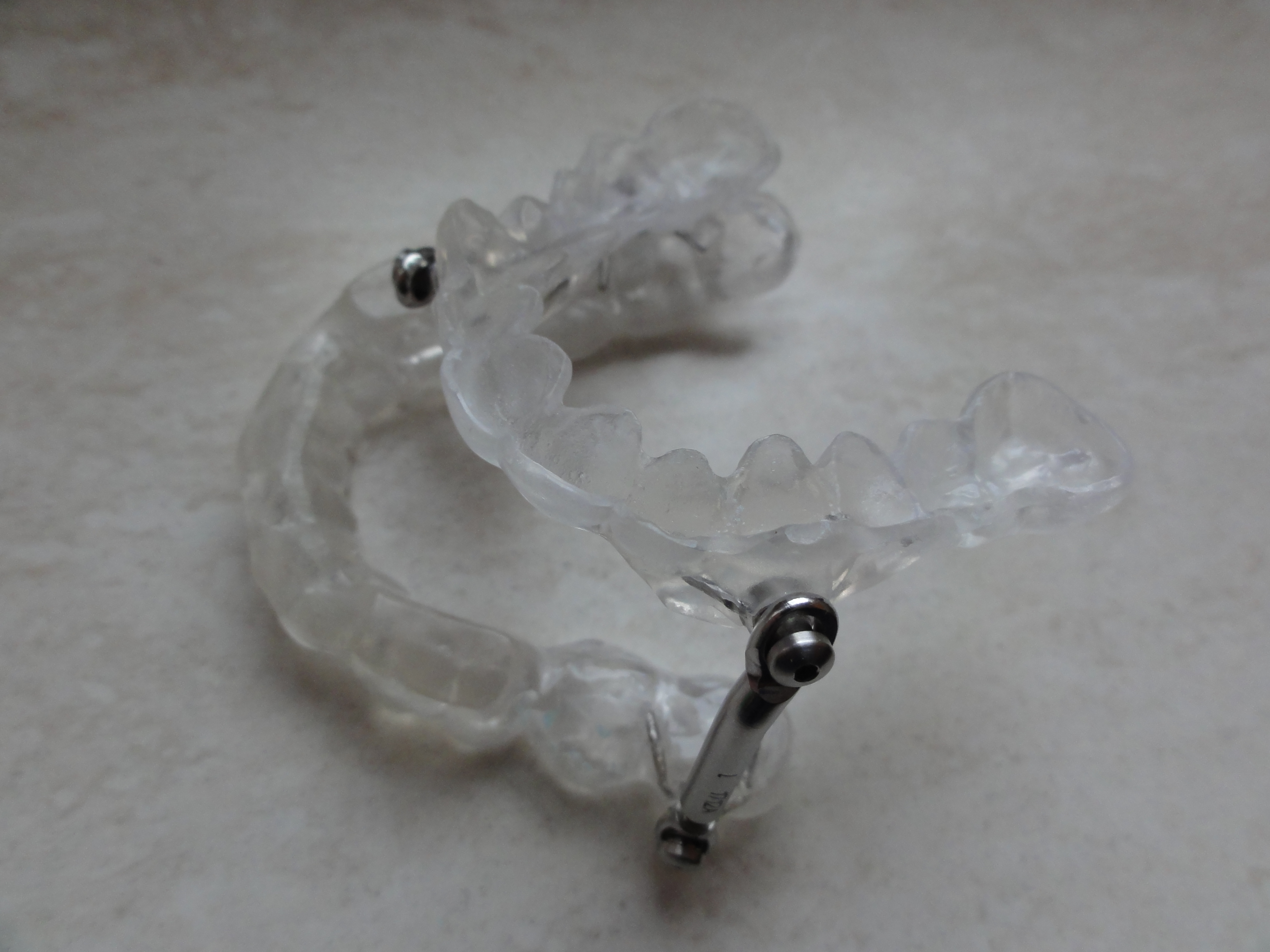 Mandibular advancement splint (Anti-snore prostheses)